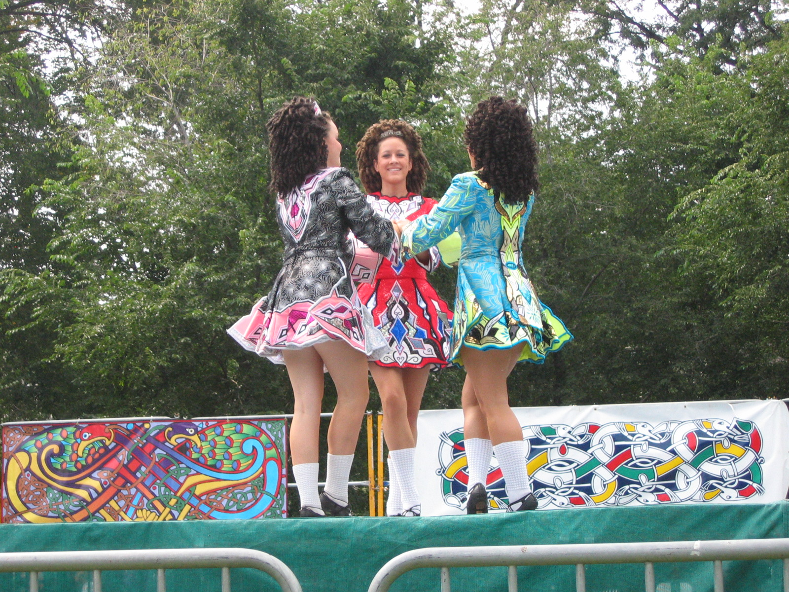 Celtic fest, dance, three girls, Chicago.